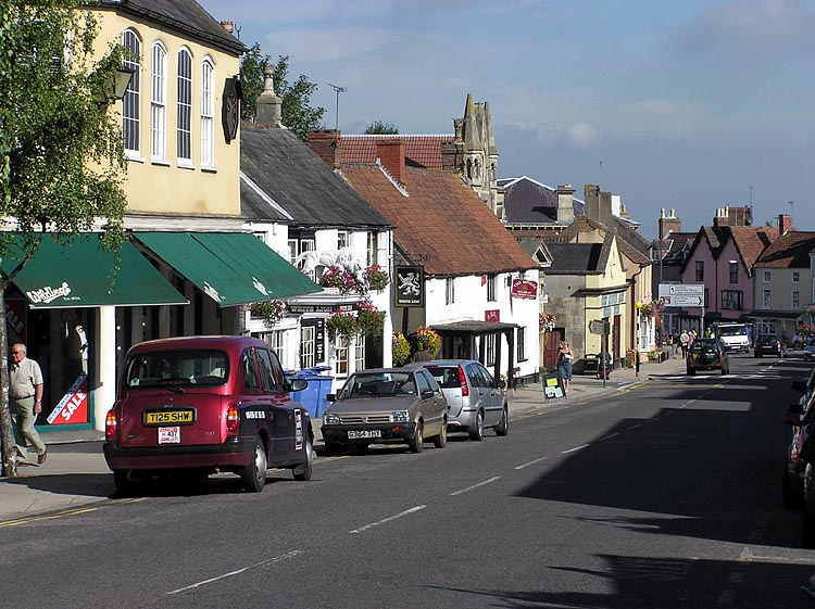 Thornbury High Street, Thornbury, near Bristol, England. Taken by Adrian Pingstone in September 2004 and released to the public domain.